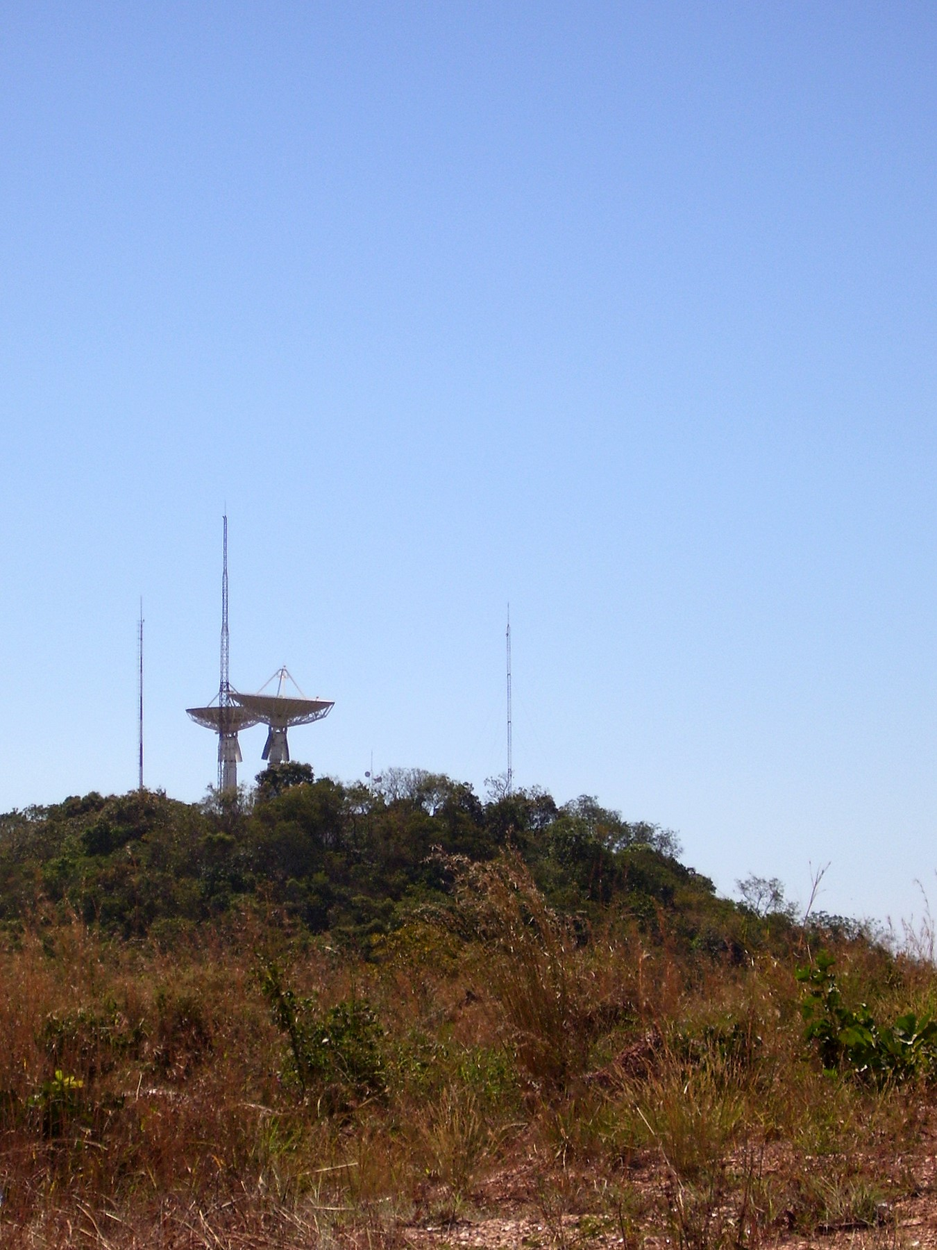 Earthly station's satellite dish of the National Institute for Space Research, in Cuiabá, Mato Grosso, Brazil.